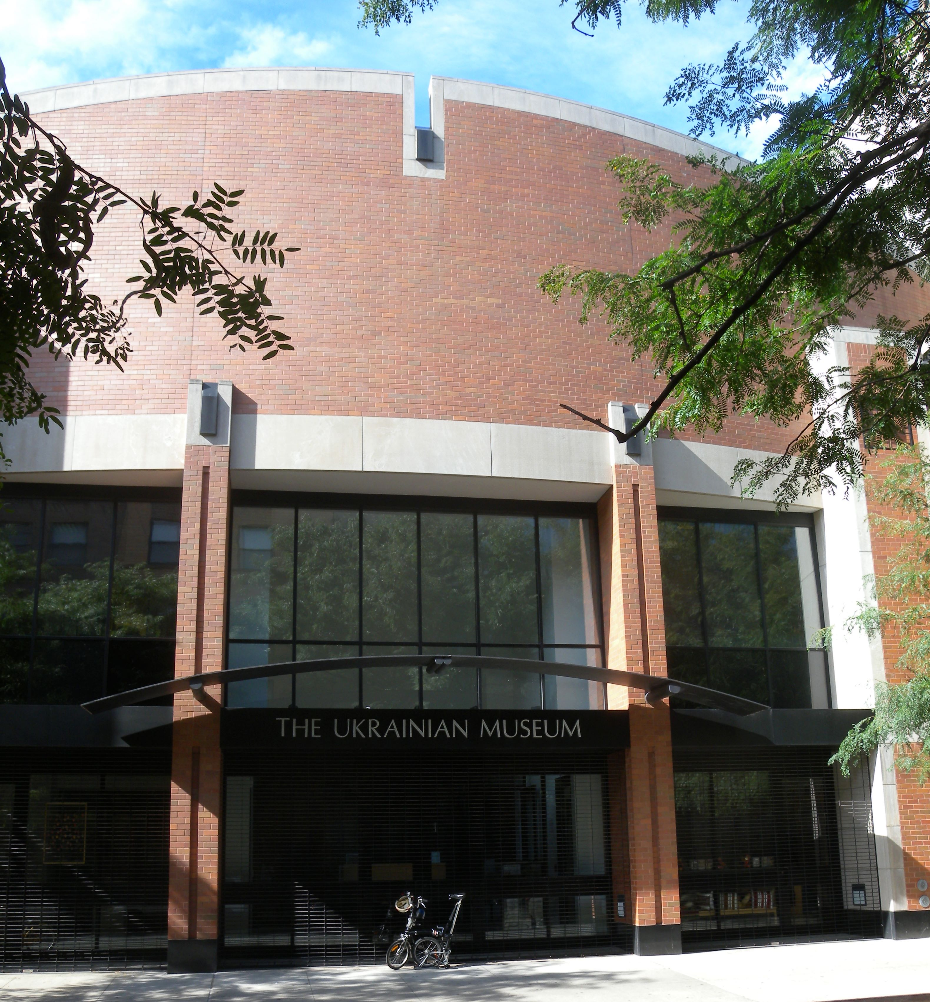 Looking south across 6th Street at Ukrainian Museum on a sunny morning.